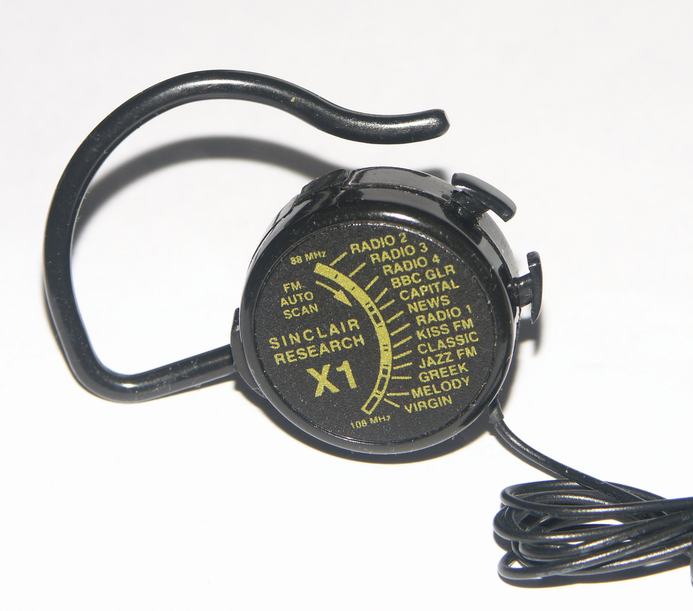 Image of the front of a Sinclair Research FM Radi,o the X1 (cir. 1997).